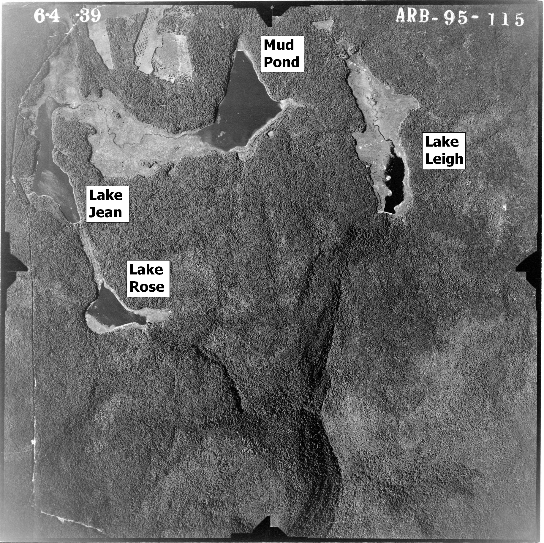 Aerial photo from 1939 of the lakes in Ricketts Glen State Park in Sullivan and Luzerne Counties, Pennsylvania in the United States. Pennsylvania Route 487 is the highway running vertically along the left side of the image. North is up. Lakes are Lake Jean (top left), Mud Pond (top center, now part of a larger Lake Jean), Lake Leigh (top right, drained in 1956) and Lake Rose (middle left, drained in 1969). Lake Rose drains into Ganoga Glen and Lake Leigh drains into Glen Leigh, these valleys meet at Waters Meet and Ricketts Glen is south and downstream of that).